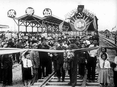 Chengyu Railway (Chengdu-Chongqing) Opening Ceremony at Chengdu Station